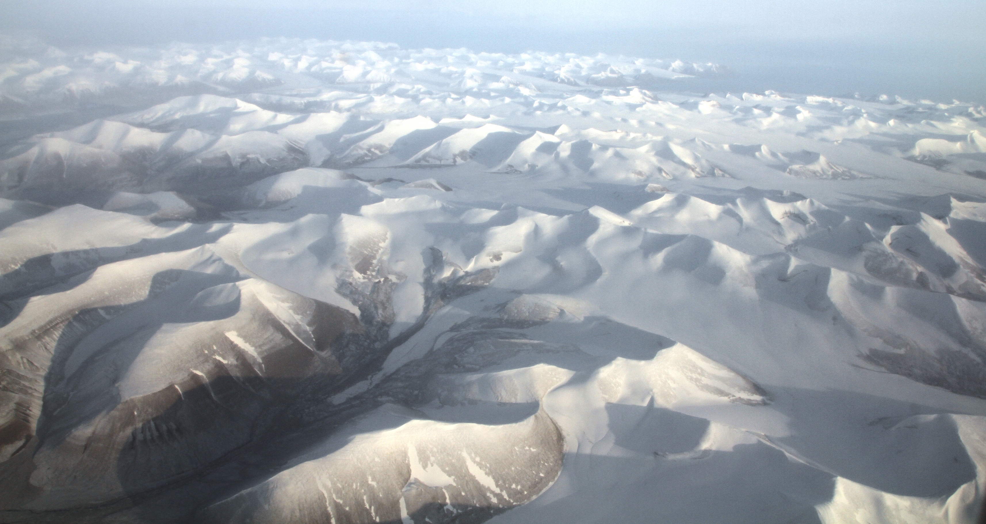 Aerial view from the west / southwest, over Nathorst Land, eastern Spitsbergen - Svalbard (Norway).